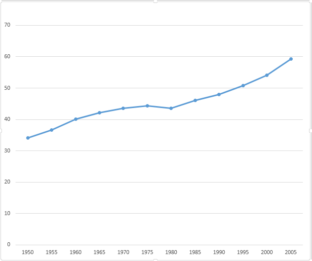 Evolution of life expectancy in Ethiopia for the period 1950–2005[1]